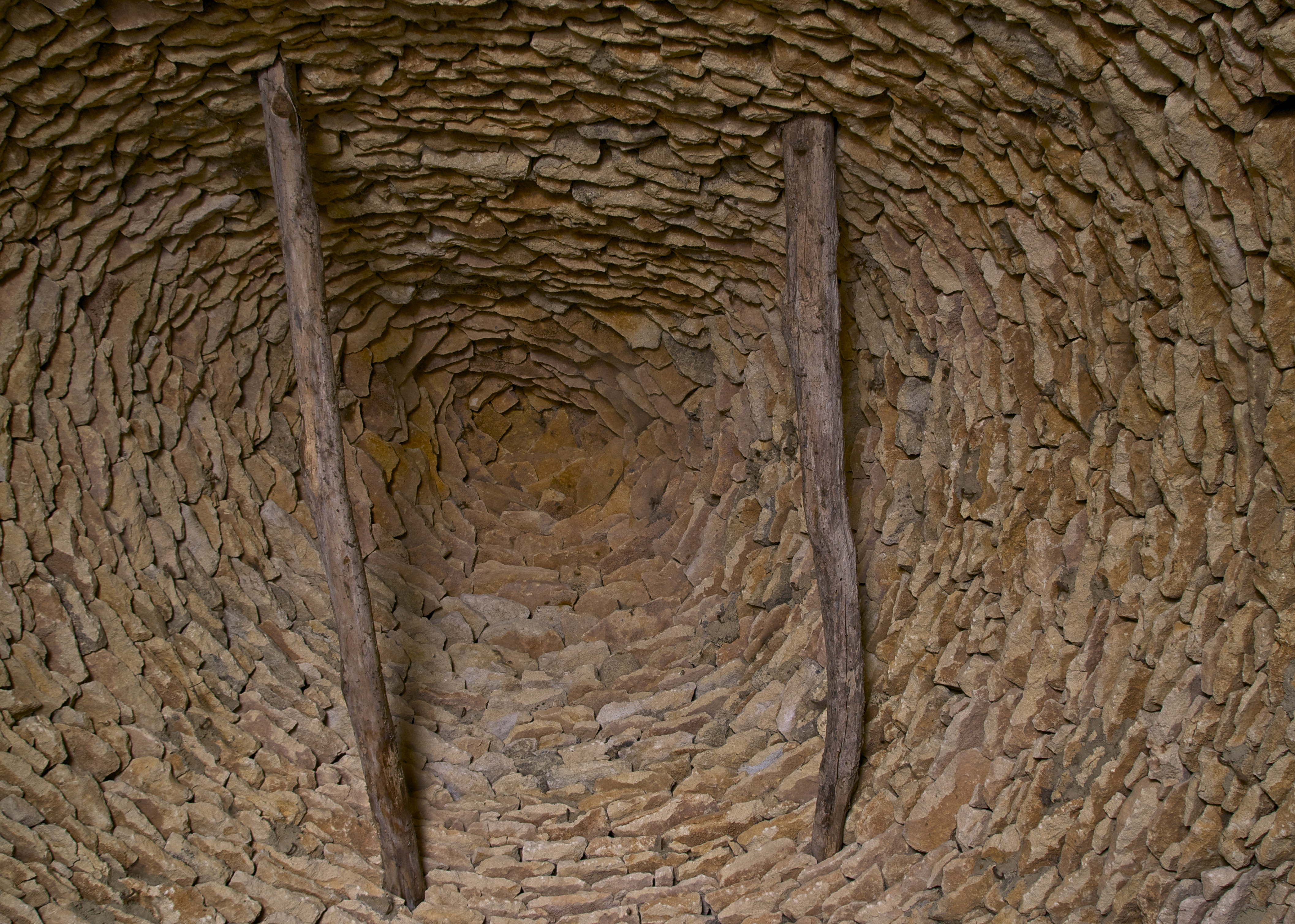 Inside of a Cabane du Breuil, view of the cantilevered corbeled dome vault, made with flat stones in limestone, called "Lauzes". Saint André d'Allas, Dordogne, France.